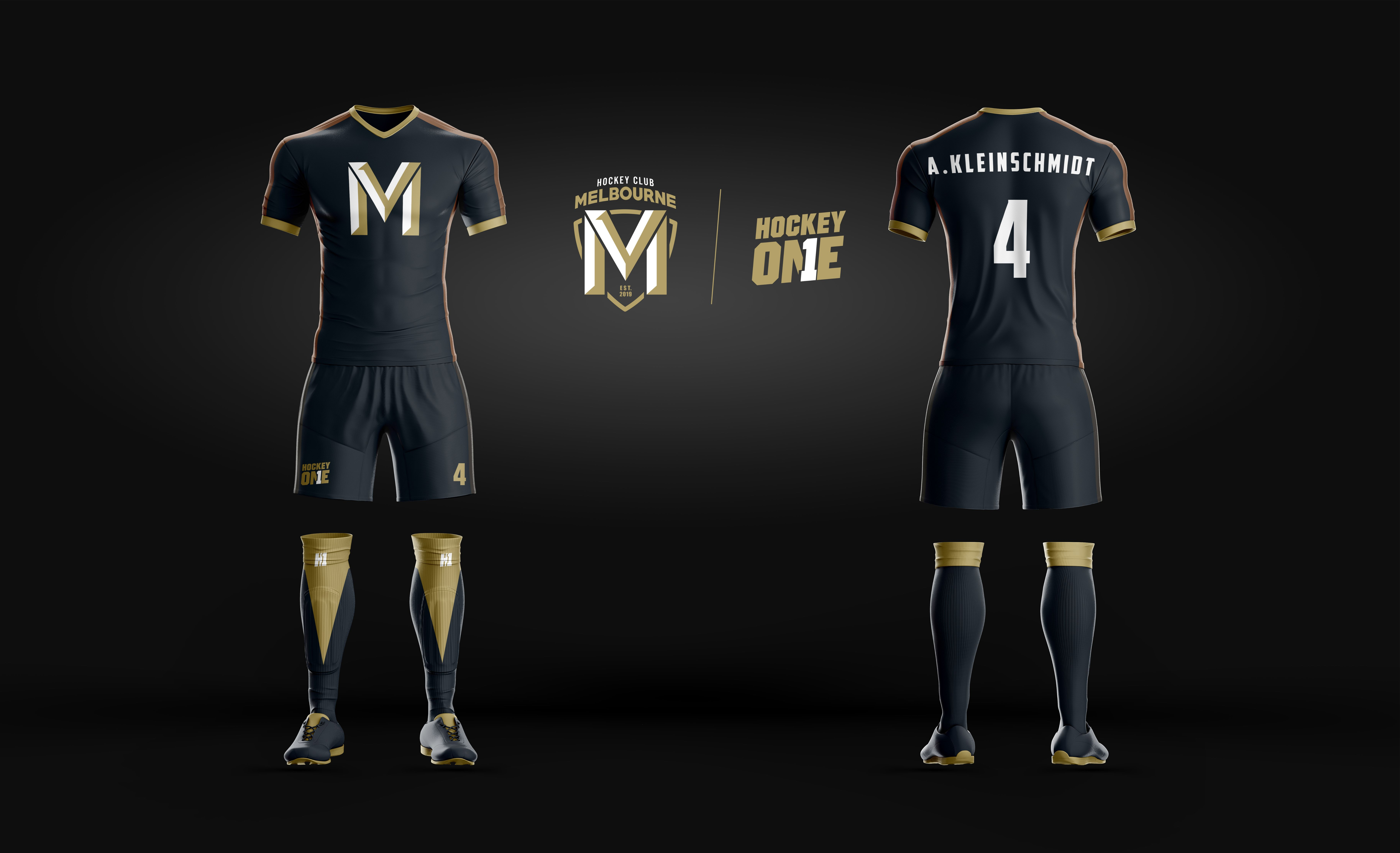 HC Melbourne Men's Uniform